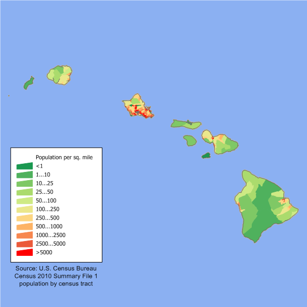 Category:U.S. State Population Maps Category:Hawaii maps Hawaii state population density map based on Census 2010 data. See the data lineage for a process description.